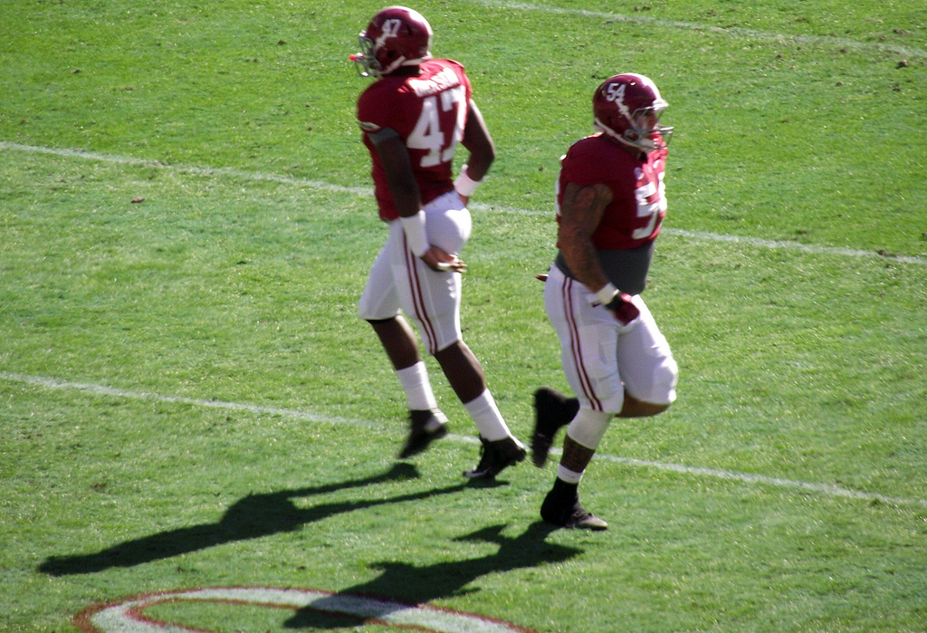 Xzavier Dickson (No. 47) and Jesse Williams (No. 54) of the Alabama Crimson Tide on the field at Bryant–Denny Stadium.